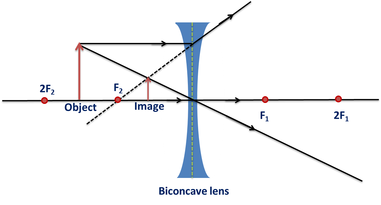 Image formation in concave lens